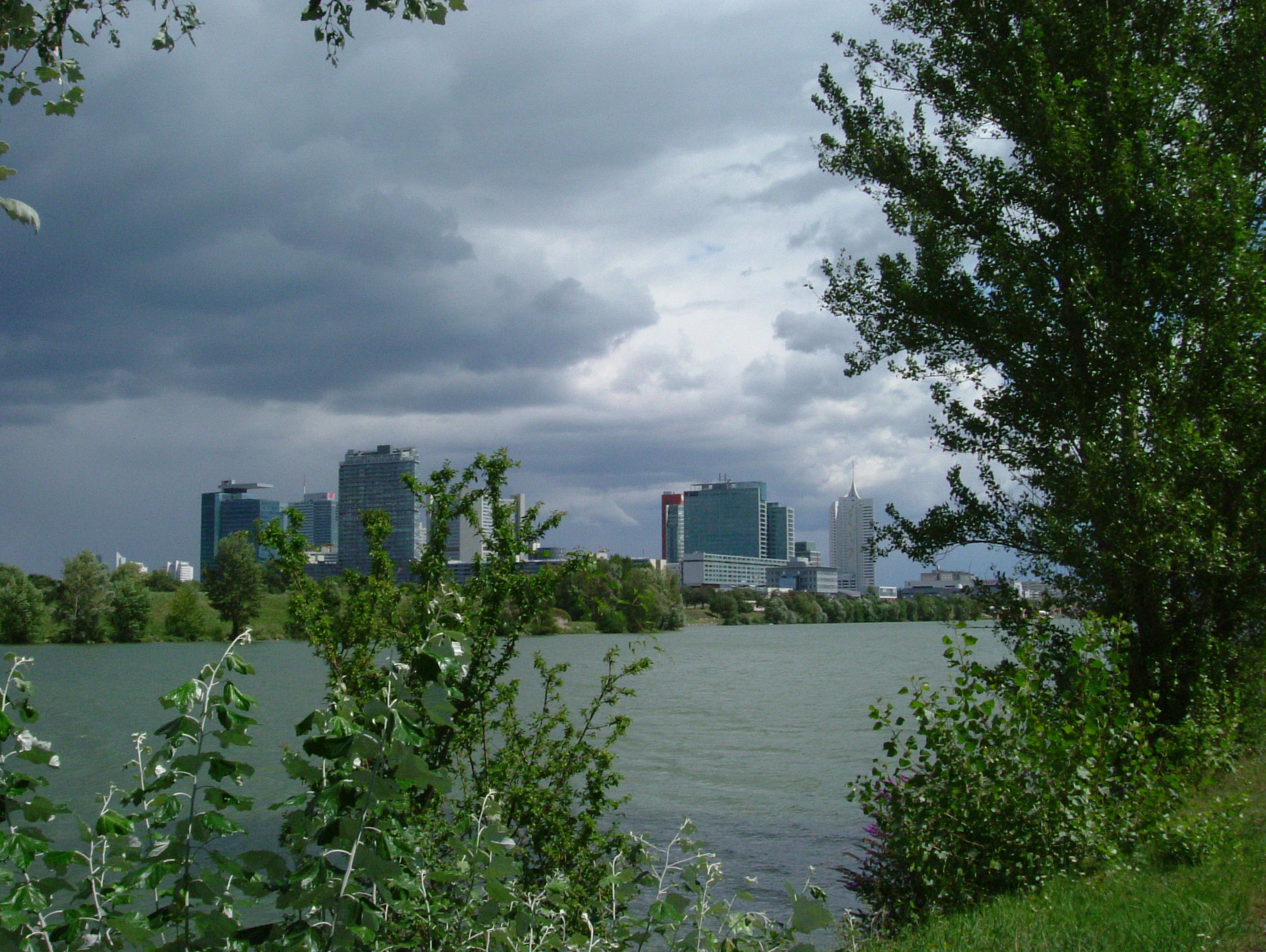 Description: Vienna Donaucity, picture taken from the Donauinsel. (2005) Wiener Donaucity von der Donauinsel aus gesehen. (2005) Source: Own image taken by Thomas Macht using Fuji Finepix. Date: Sommer/summer 2005 Author: Thomas Macht